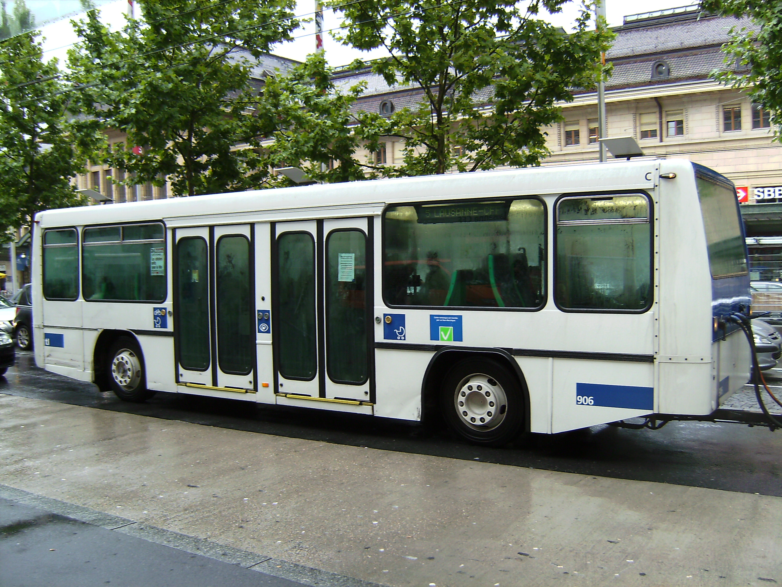 Trolleybus trailer in Lausanne, Switzerland. Photo taken in front of the train station. Trolleybus trailer No 906